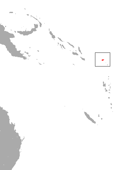 Nendo Tube-nosed Fruit Bat (Nyctimene sanctacrucis) range